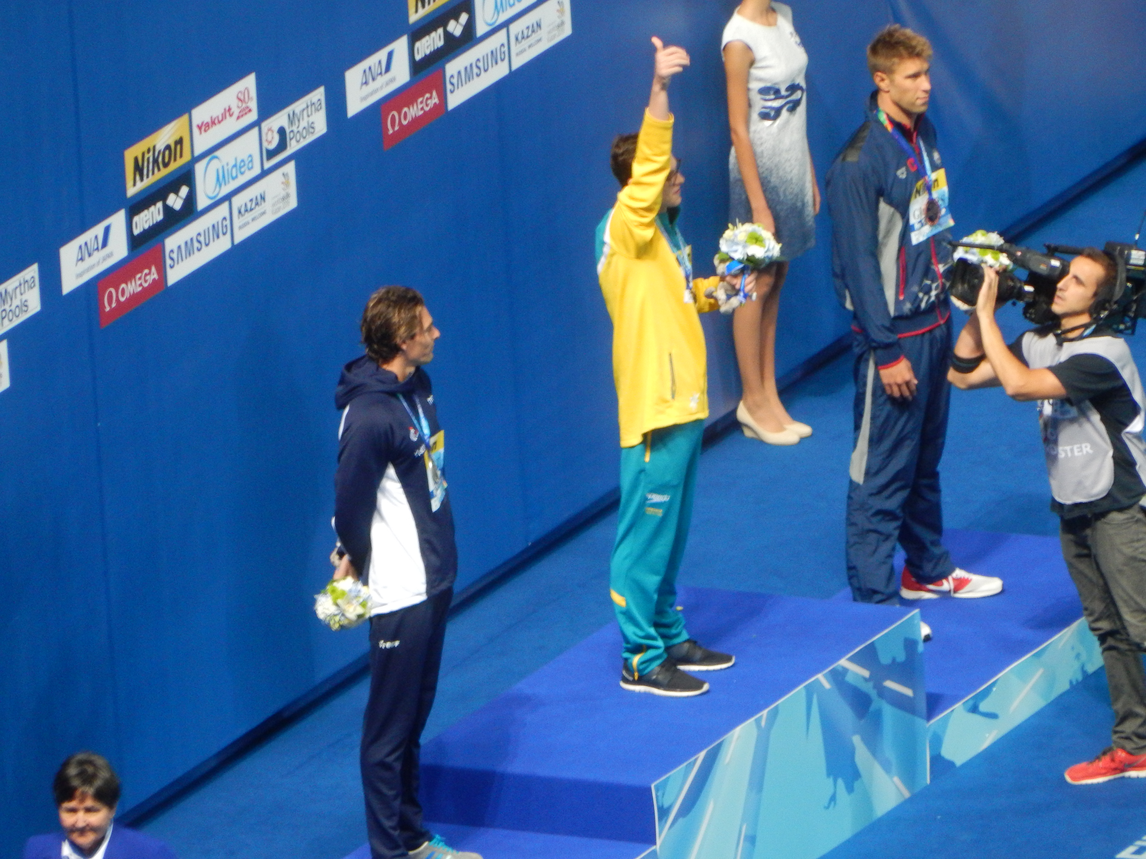 Medallists at the men's 100 metres backstroke in Kazan 2015